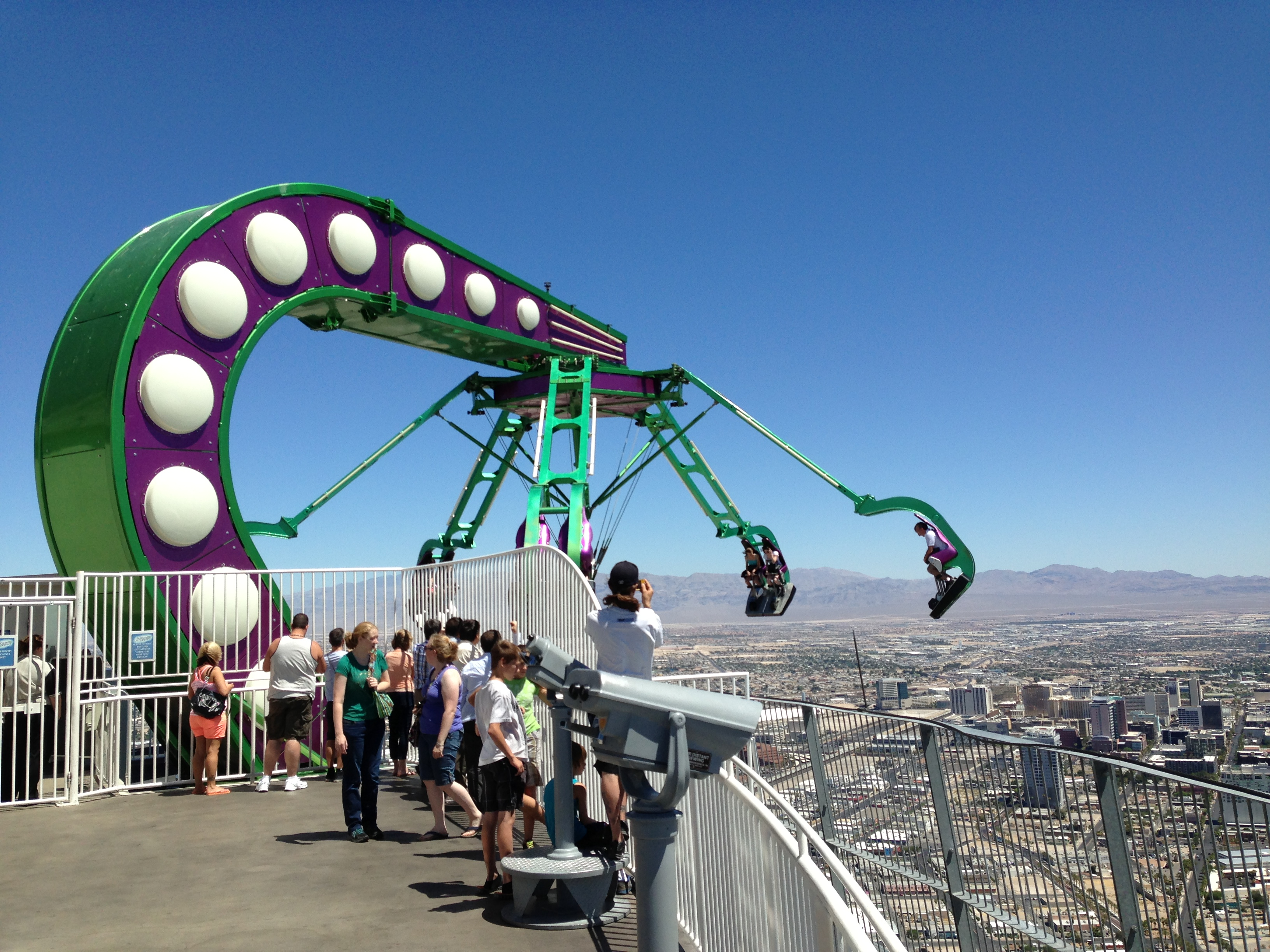 Stratosphere Las Vegas